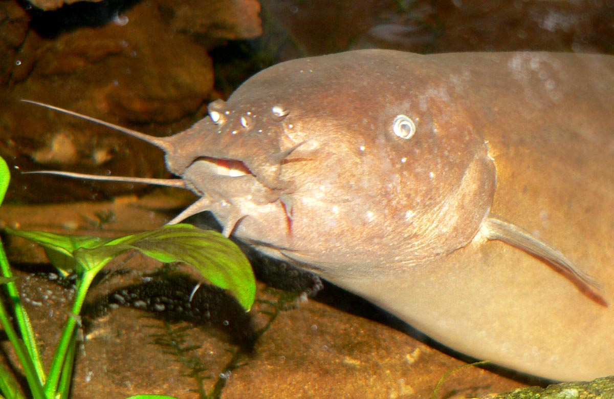 Photo of Malapterurus electricus (electric catfish) at the Steinhart Aquarium in San Francisco